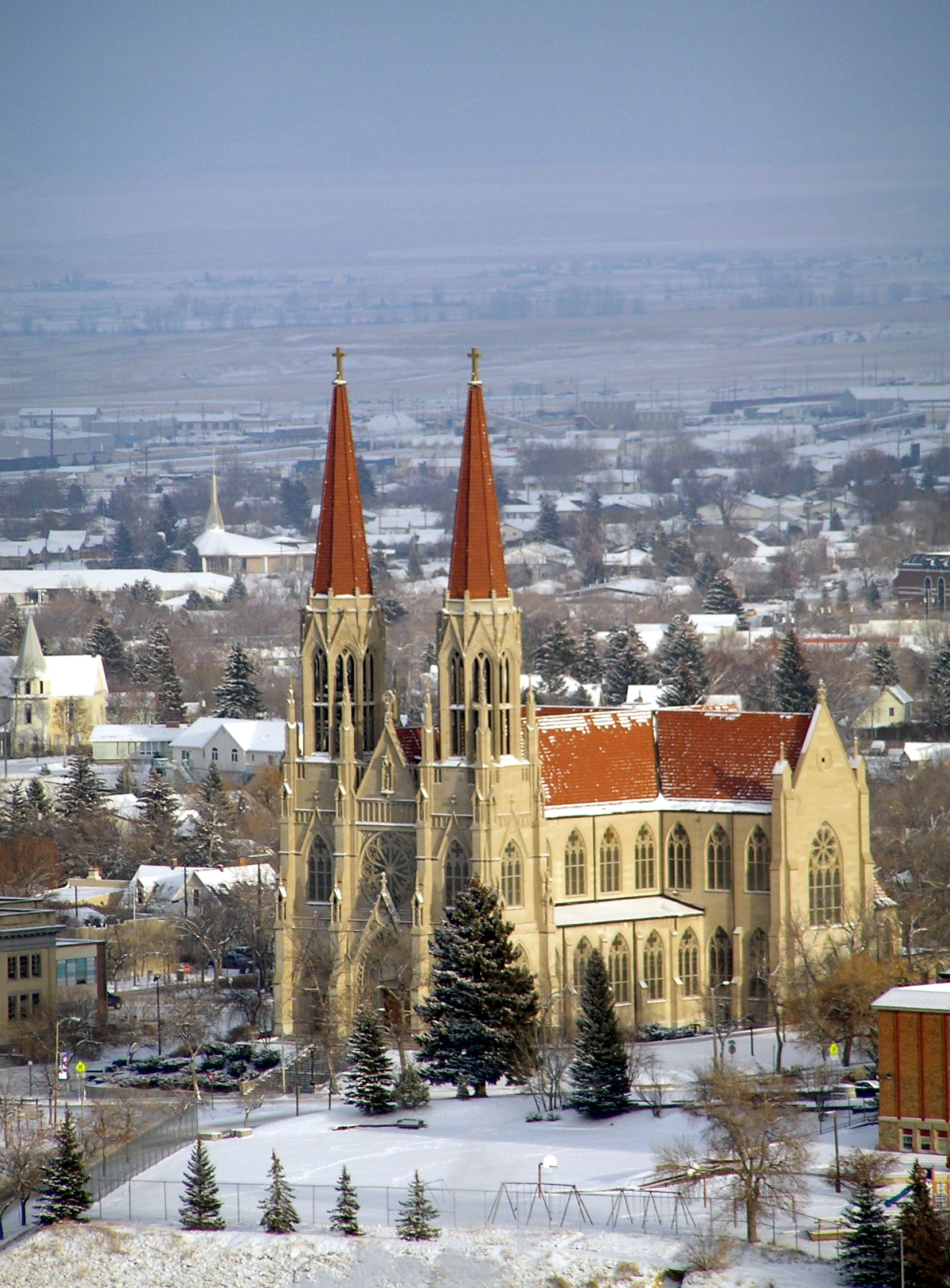 This photo of the St. Helena Cathedral in Helena was taken from Strawberry Hill on Mount Helena City Park by K.B. A portion of the Central School playground is visible in the foreground, and the Helena Valley extends in the background. Uploaded by SWD 06:52, 18 December 2006 (UTC)